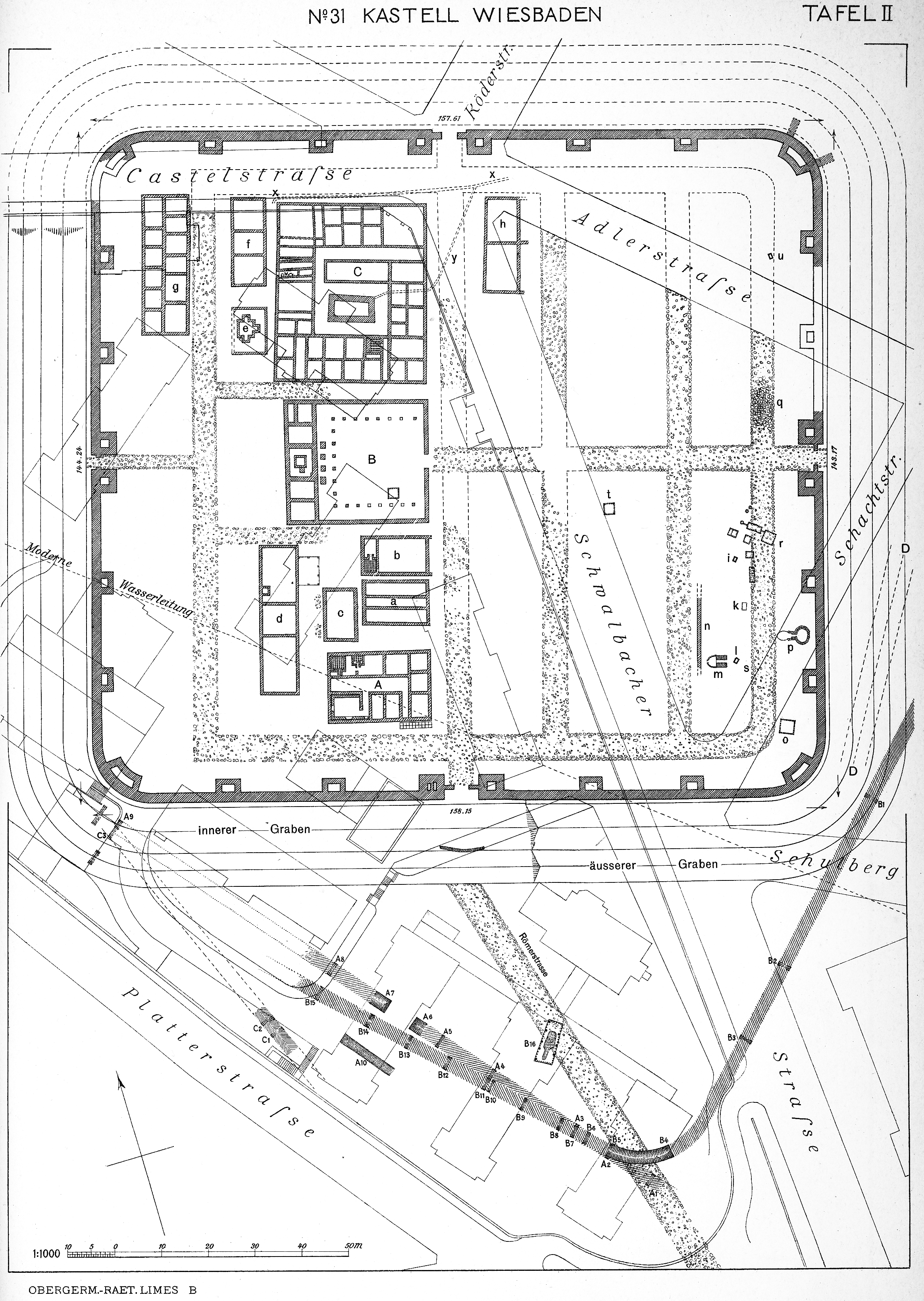 Plan of Roman castle in Wiesbaden.